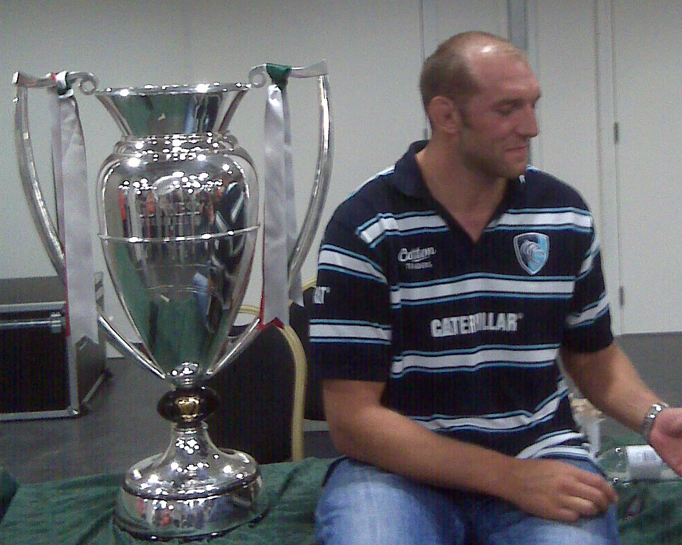 Ben Kay with 2008/09 Guinness Premiership Trophy. Welford Road open day September 2009